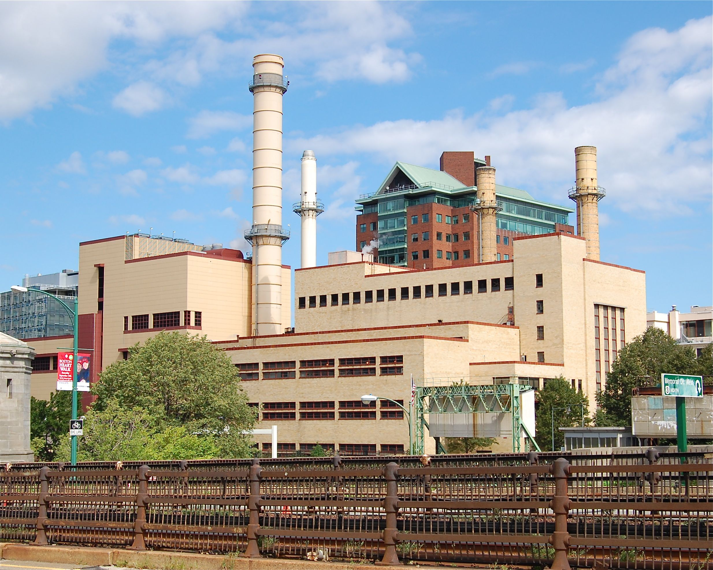 Mirant Kendall Cogeneration Station, est. 1949, a power plant in Cambridge, Massachusetts. Cogeneration means that steam is used for both electricity and heating and cooling production. Capacity: 256 megawatts. The rusted fence in the foreground is for the MBTA Red Line tracks on the Longfellow Bridge. Mirant was acquired by GenOn Energy in December 2010, which was itself acquired by NRG in December 2012.